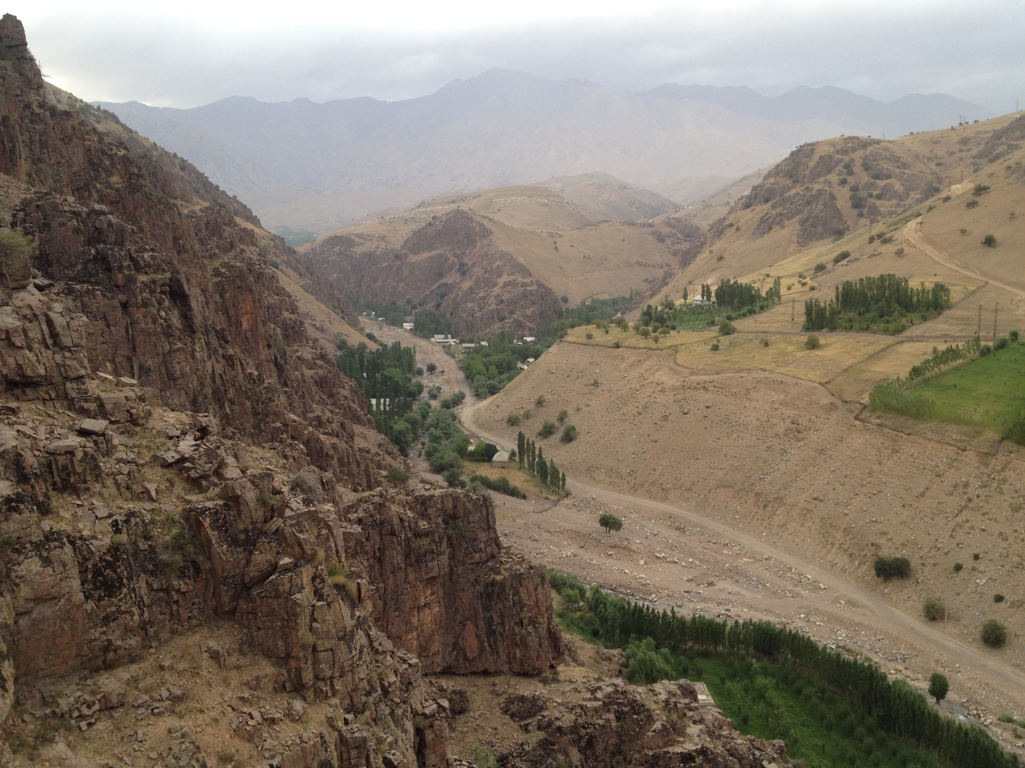 Rocks of right beach of Ir-Tash